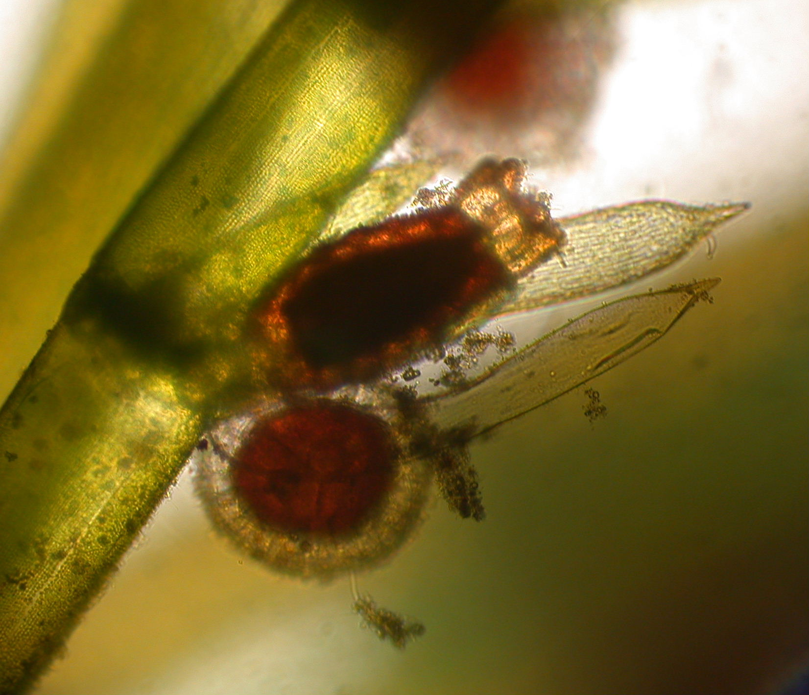 Sexual reproductive structure of Chara sp. (Charophyta). Rice field, Tanabe city, Wakayama pref., Japan.